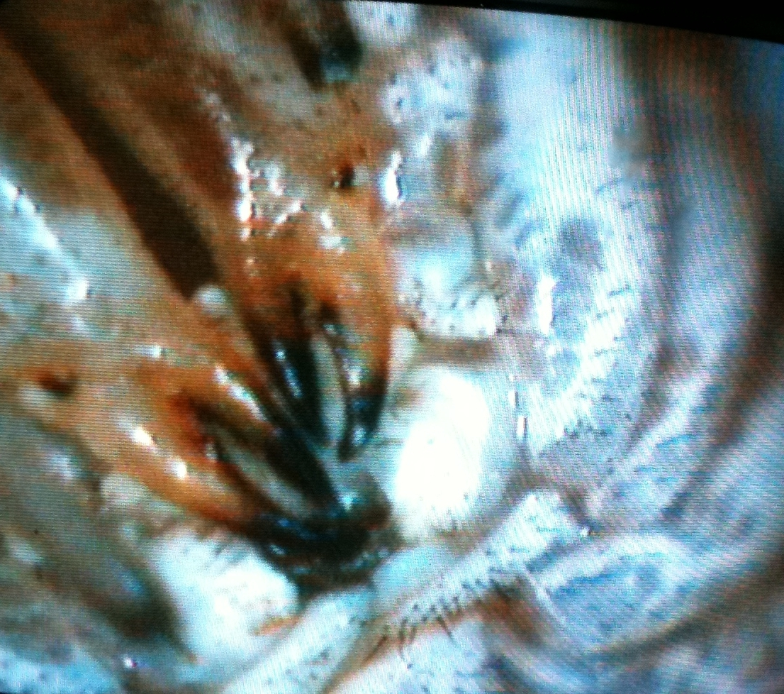 This is a picture of a Harvestman Opiliones mouth at 200x magnification. I took this photo myself using an Eyeclops Bionicam. It is not a screen capture of a TV program or other copyrighted material.